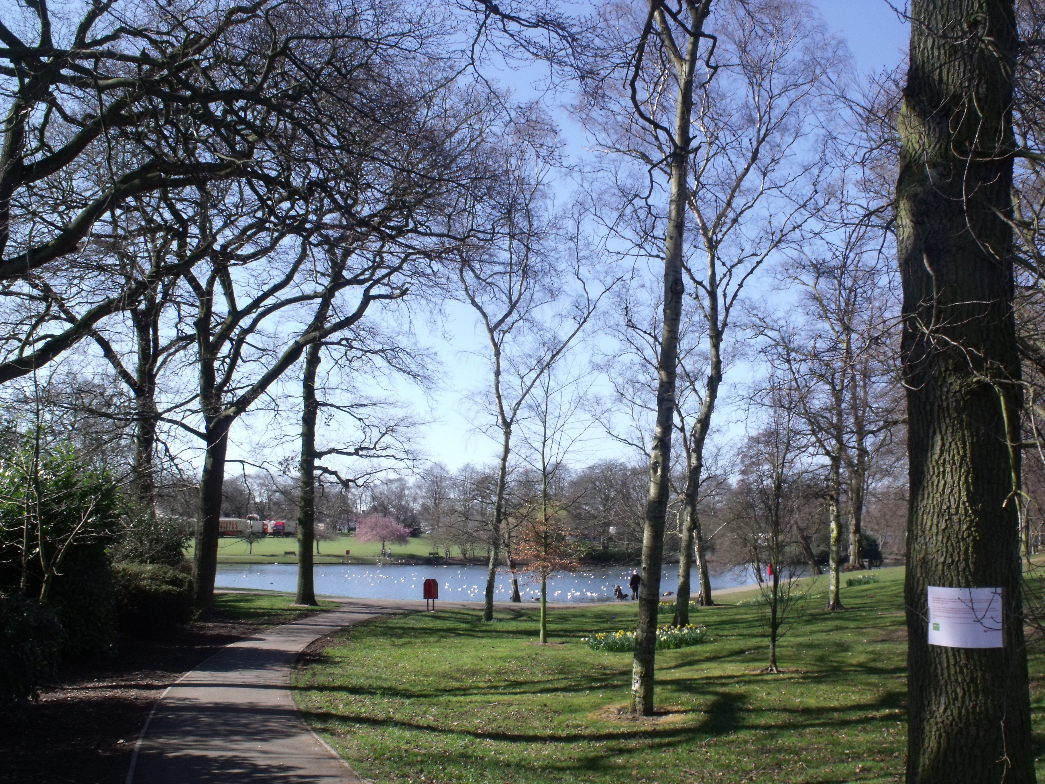 I returned to Swanshurst Park when I heard that Zippos Circus was in town. While it was a nice day, with sun shine and a blue sky, I headed towards the park to get shots with the circus. I looks quite nice with the lake. I was thinking on going on the other side of the lake (closer to the circus) but thought it would look nice with the lake. Once last look at the park and path before leaving.